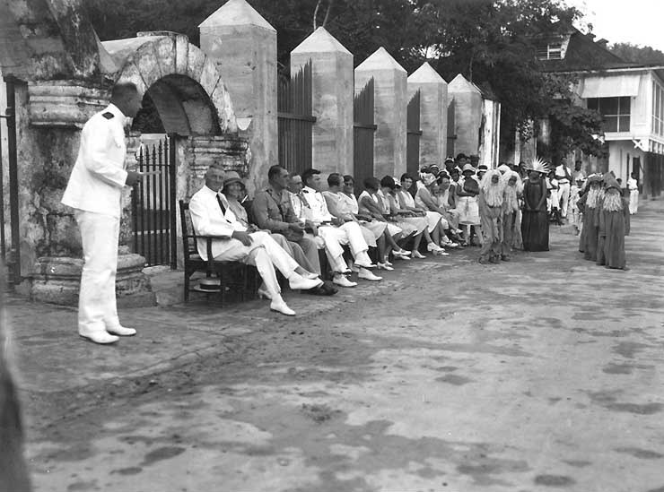 Commander Willis W. Bradley, Jr., USN (seated at left), Naval Governor of Guam, attends Arbor Day exercises at the Governor's Palace, Agana, Guam circa 1930.